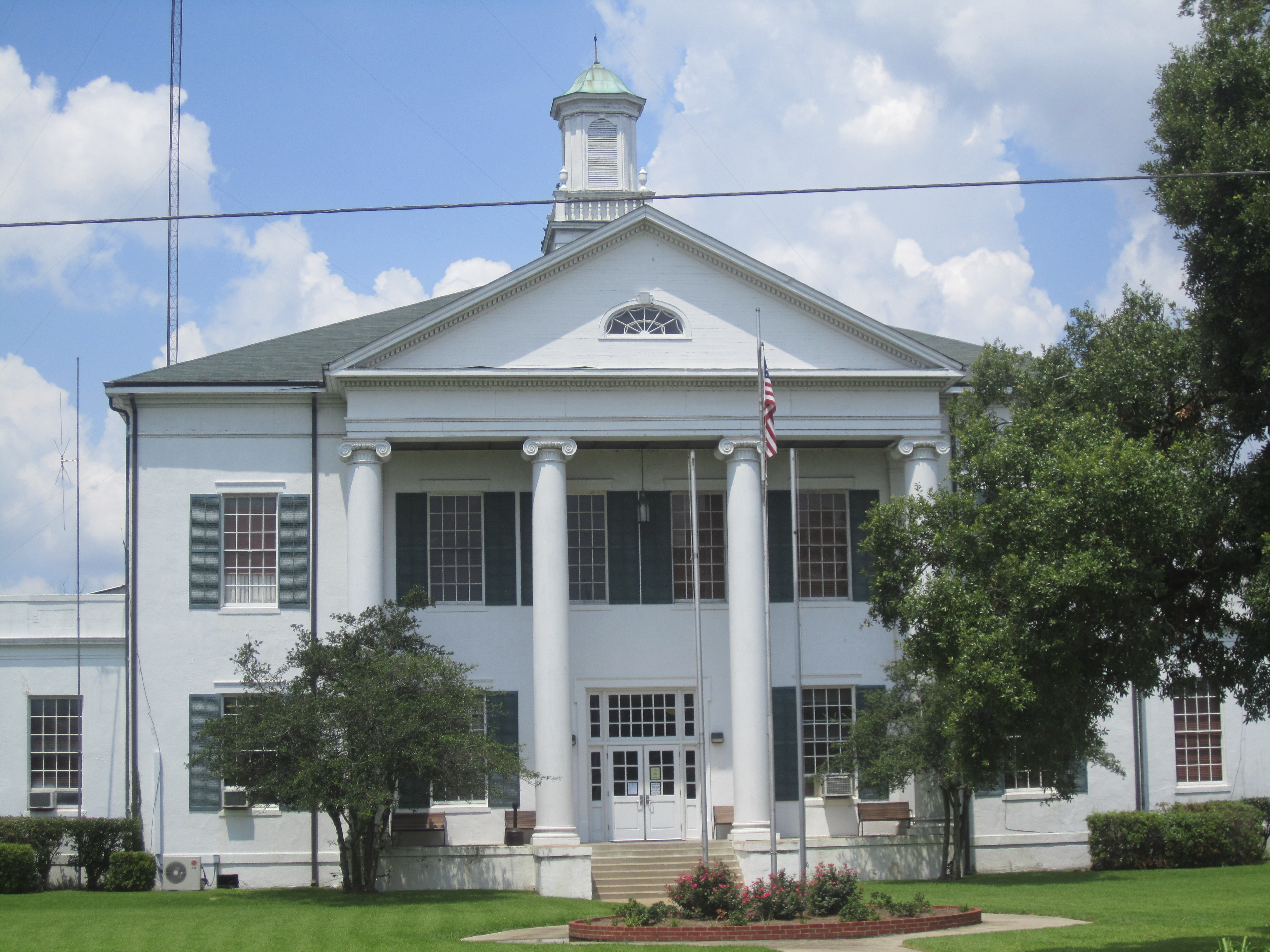 I took photo in Tallulah, LA, with Canon camera.